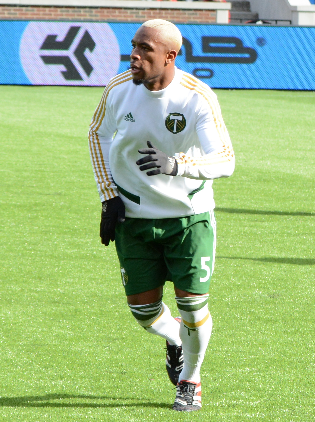 Taken during FC Cincinnati's Major League Soccer regular season home opener match against Portland Timbers at Nippert Stadium in Cincinnati, USA on March 17, 2019.